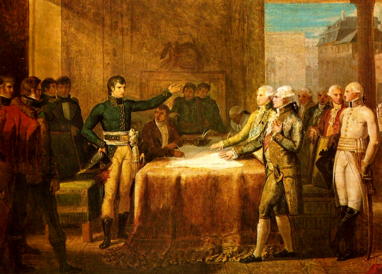 Preliminaries of the Peace Signed at Leoben